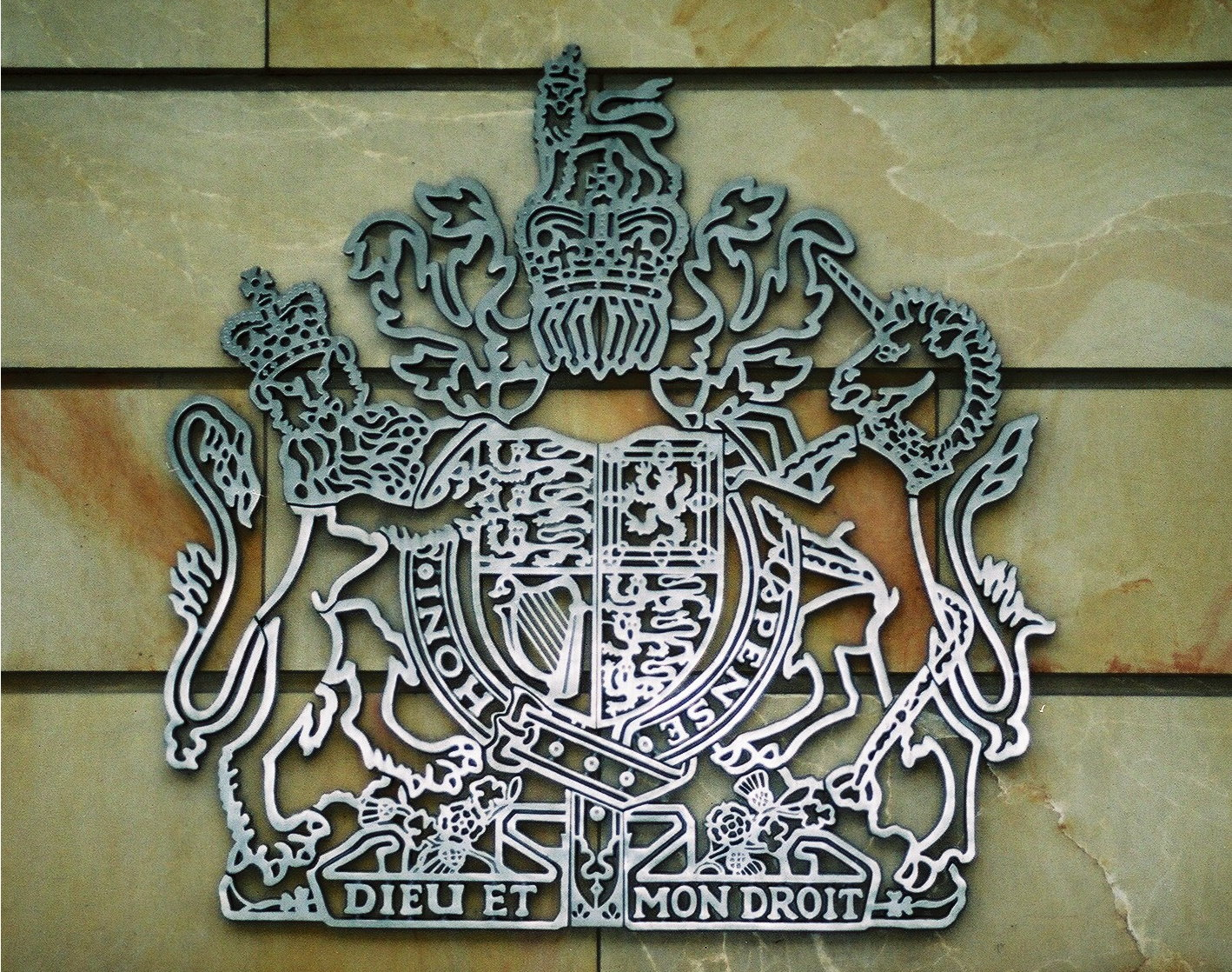 british coat of arms at outside wall of the british embassy in Berlin